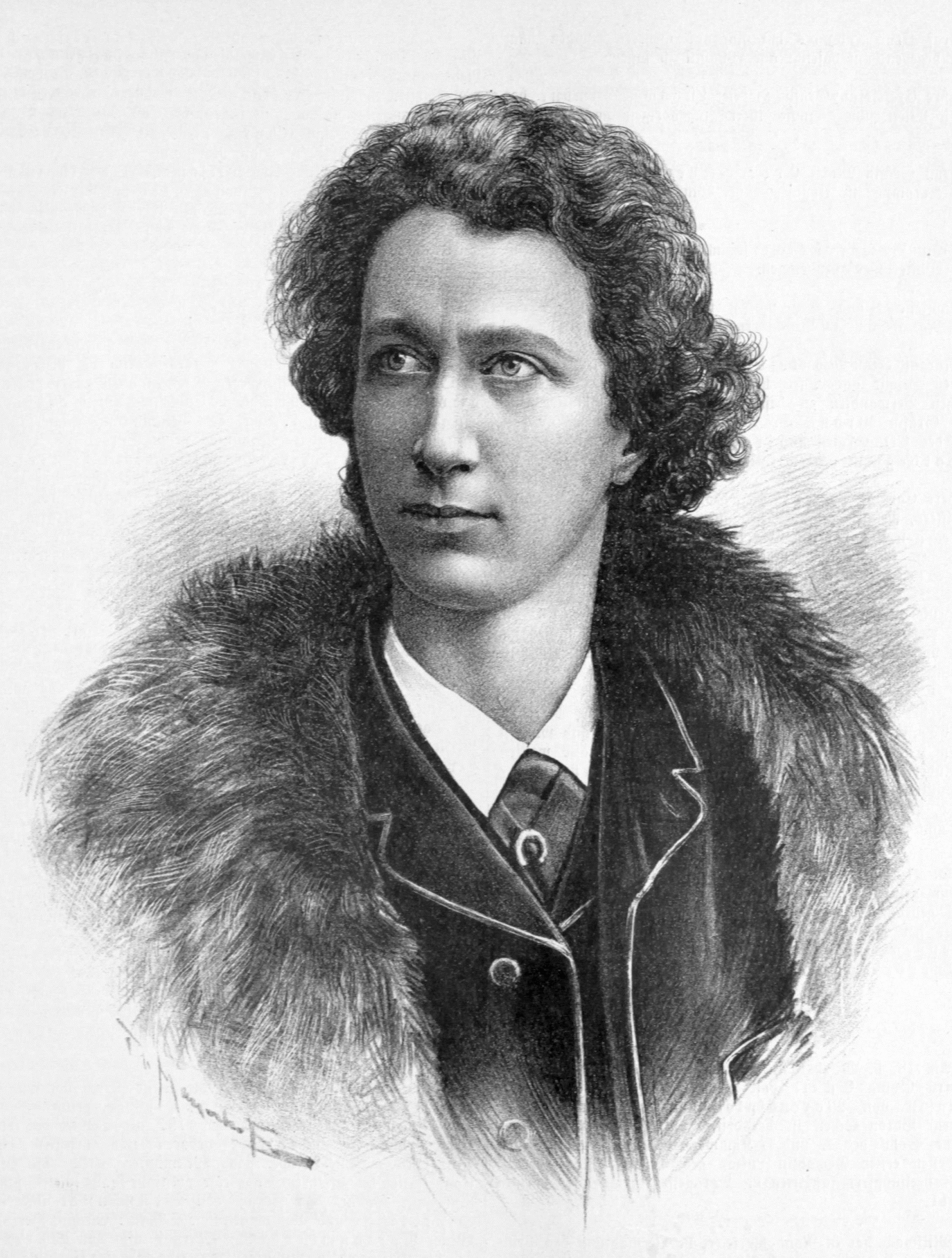 Emil von Sauer (1862–1942), Austrian pianist and composer